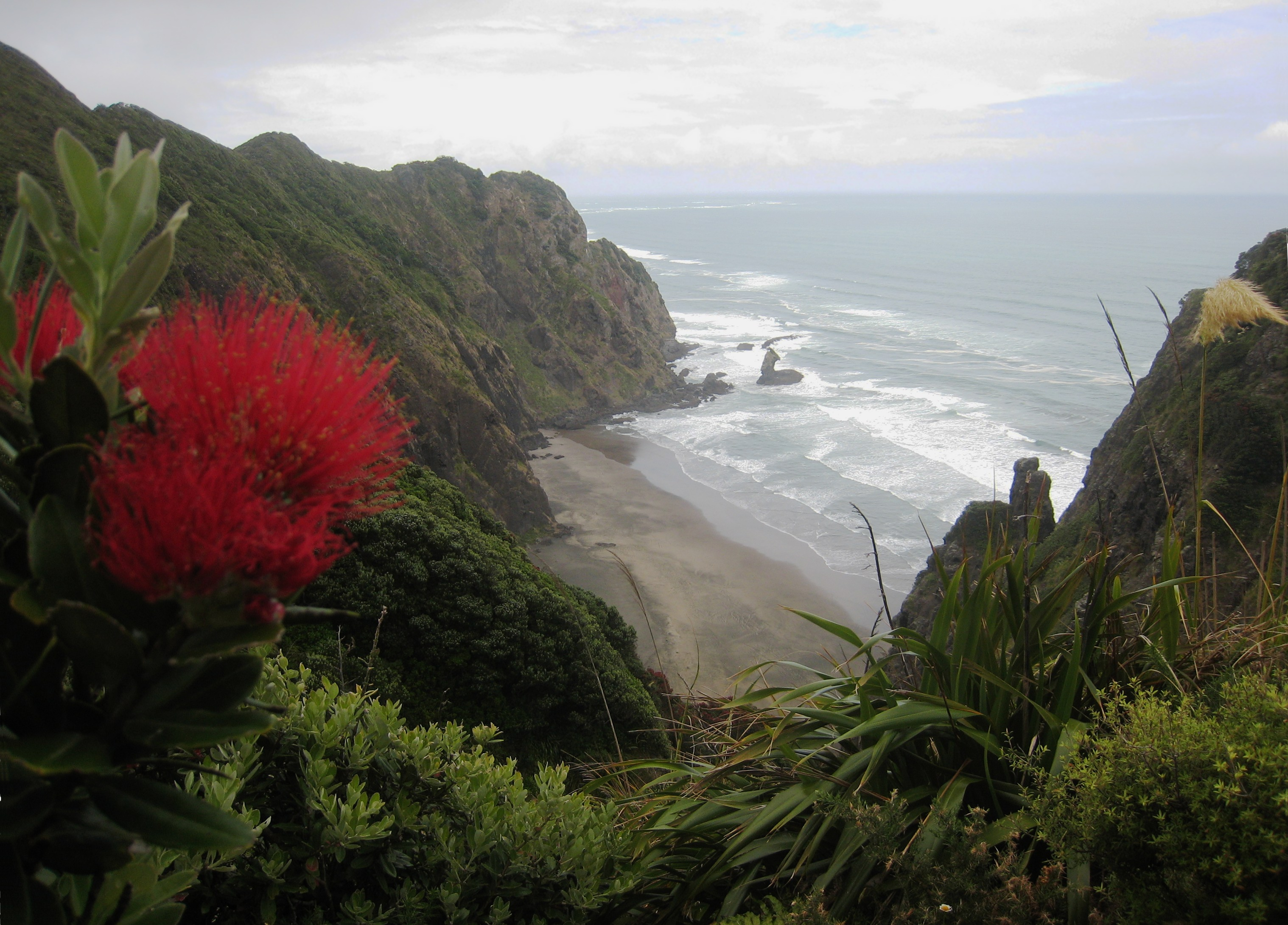 Mercer Bay, on Auckland's west coast, viewed from the Hillary Trail. Pohutukawa flower in left foreground. Surf betrays the Manukau Bar in the distance.